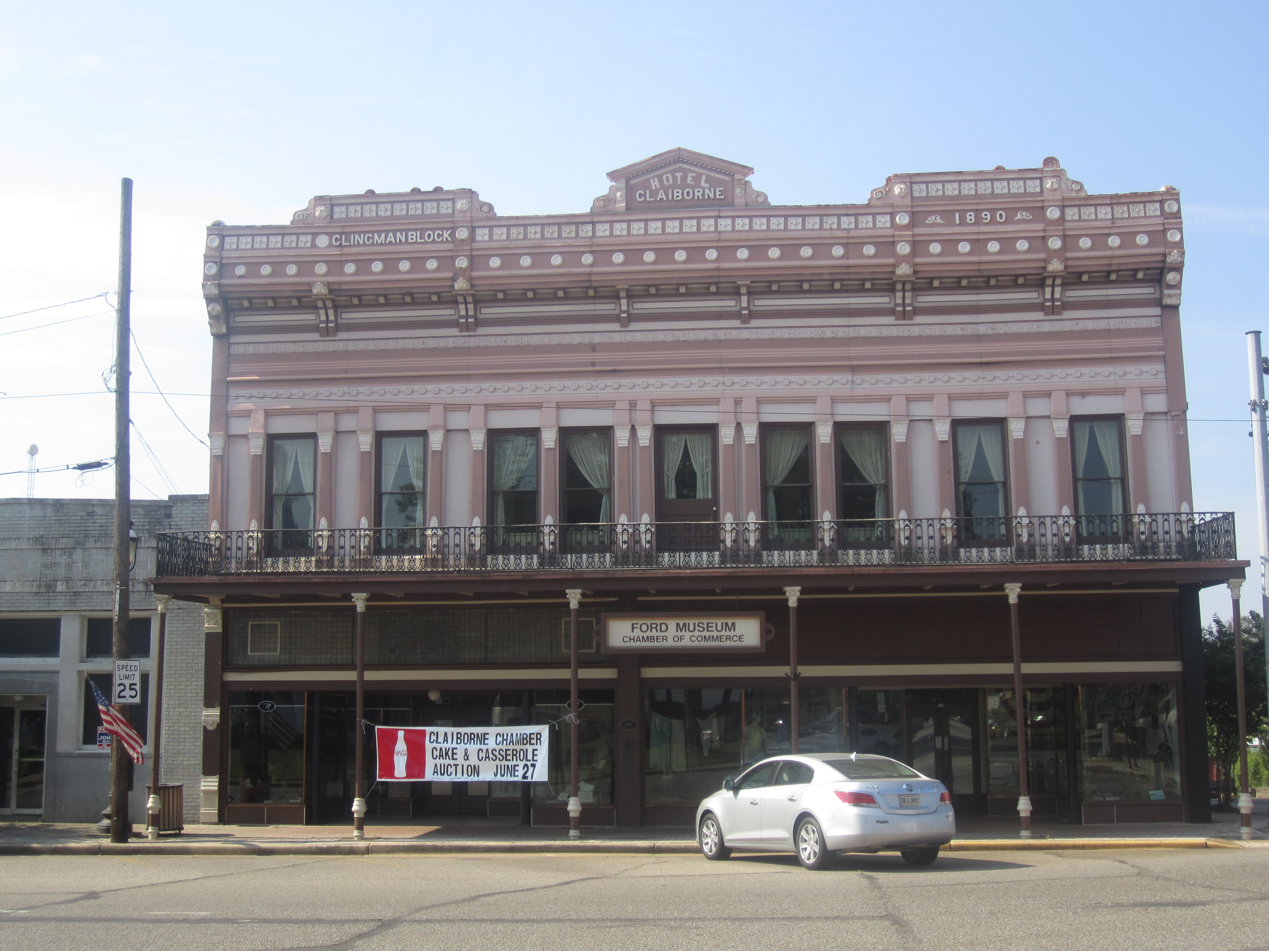 I took photo with Canon camera in Homer, LA.